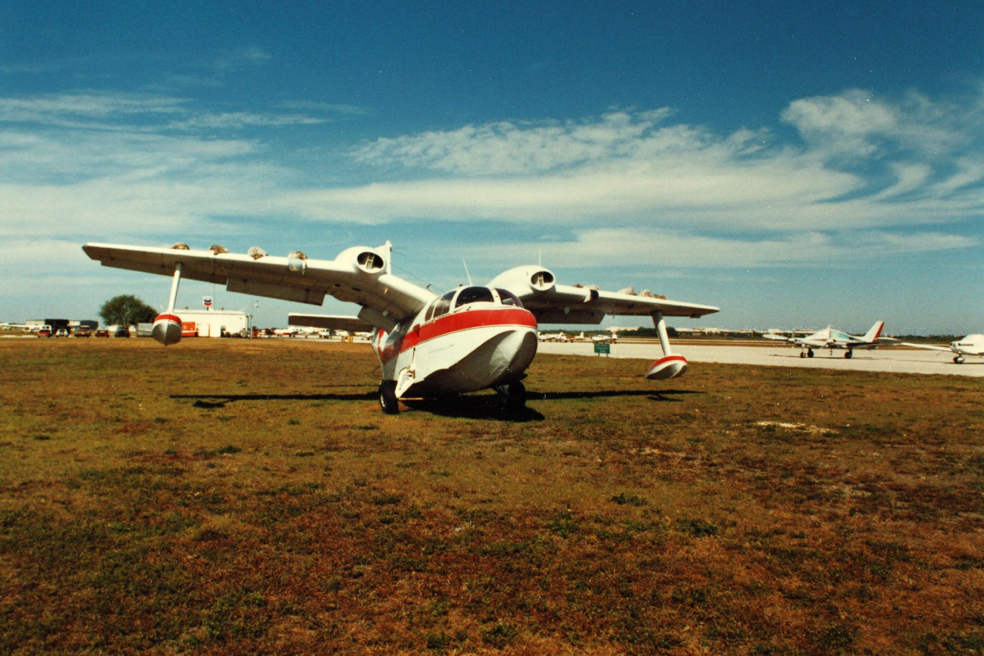 Piaggio, P.136, Trecker Gull